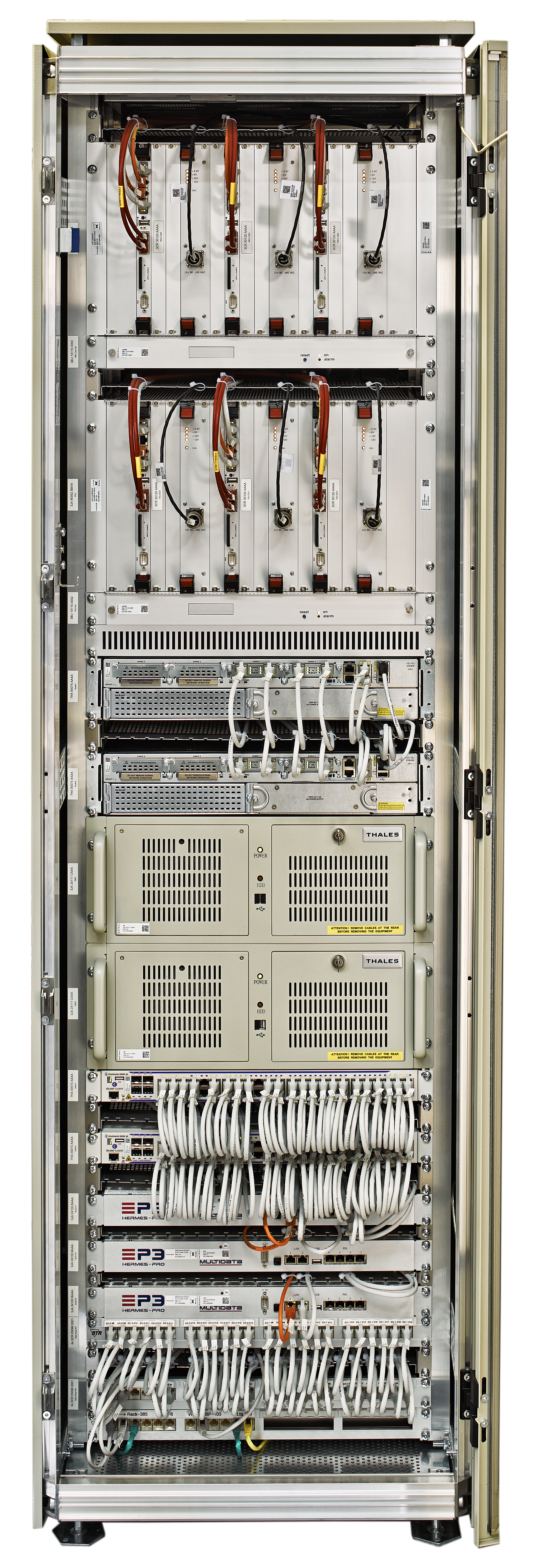 Radio Block Centre of the European Train Control System by Thales Group